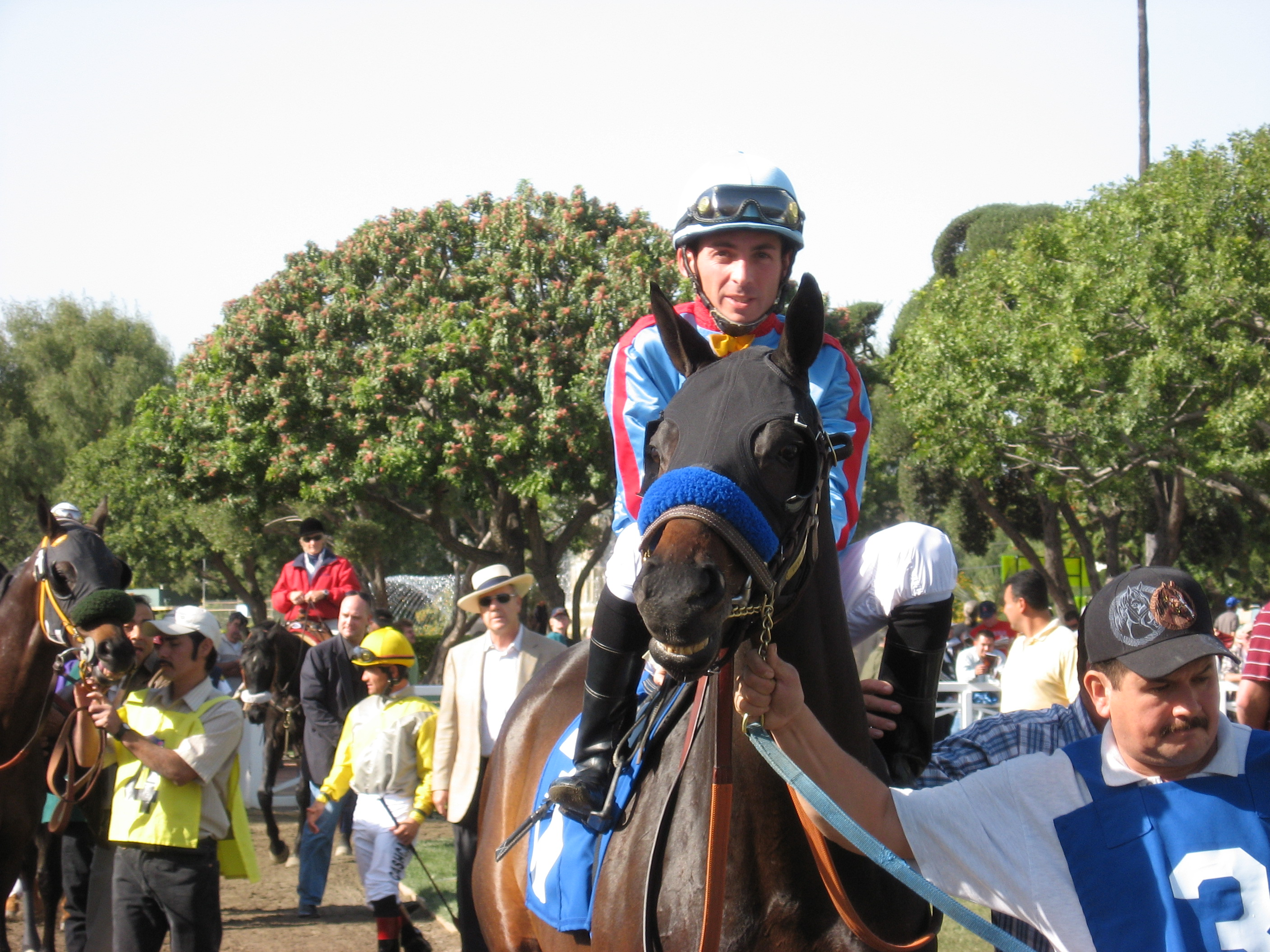 Jockey Aaron Gryder riding Devil's Bay on January 7, 2007.